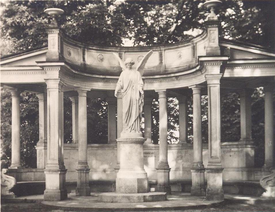 Fürstenberg memorial, Baden-Baden, Germany